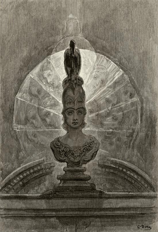 Illustration 15 for "The Raven" by Edgar Allan Poe for the line "Perched upon a bust of Pallas."